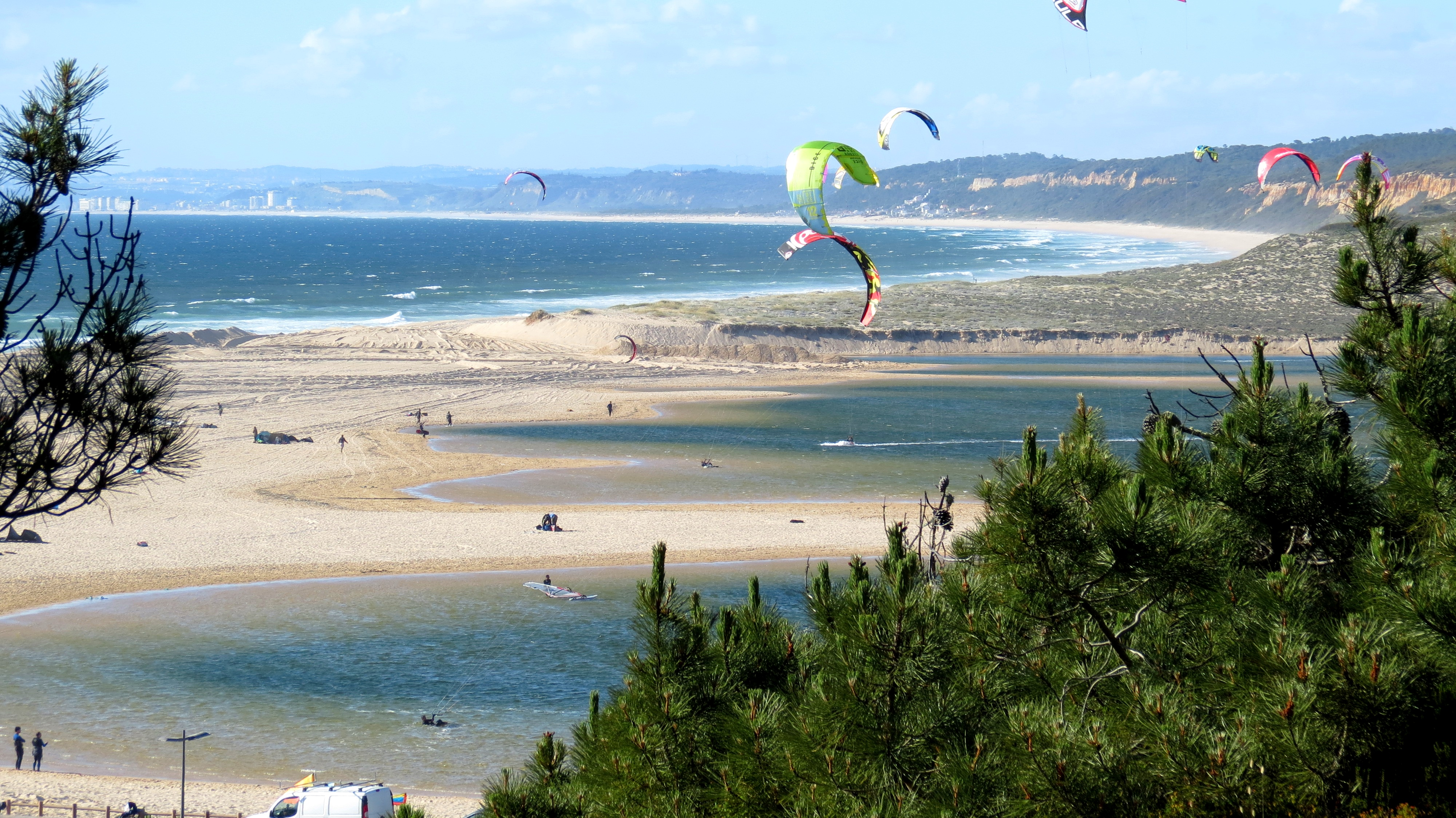 Nature in Portugal